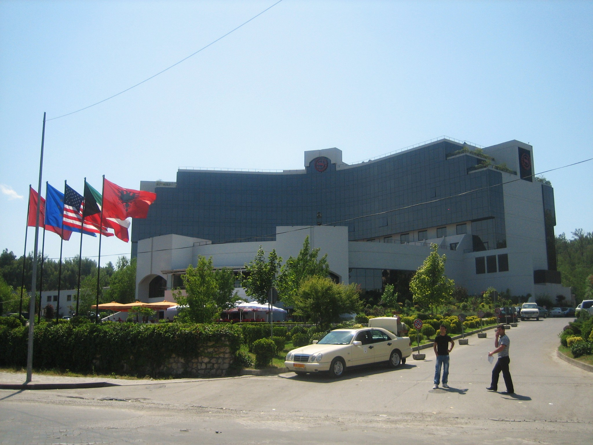 Sheraton Hotel Tirana, Albania